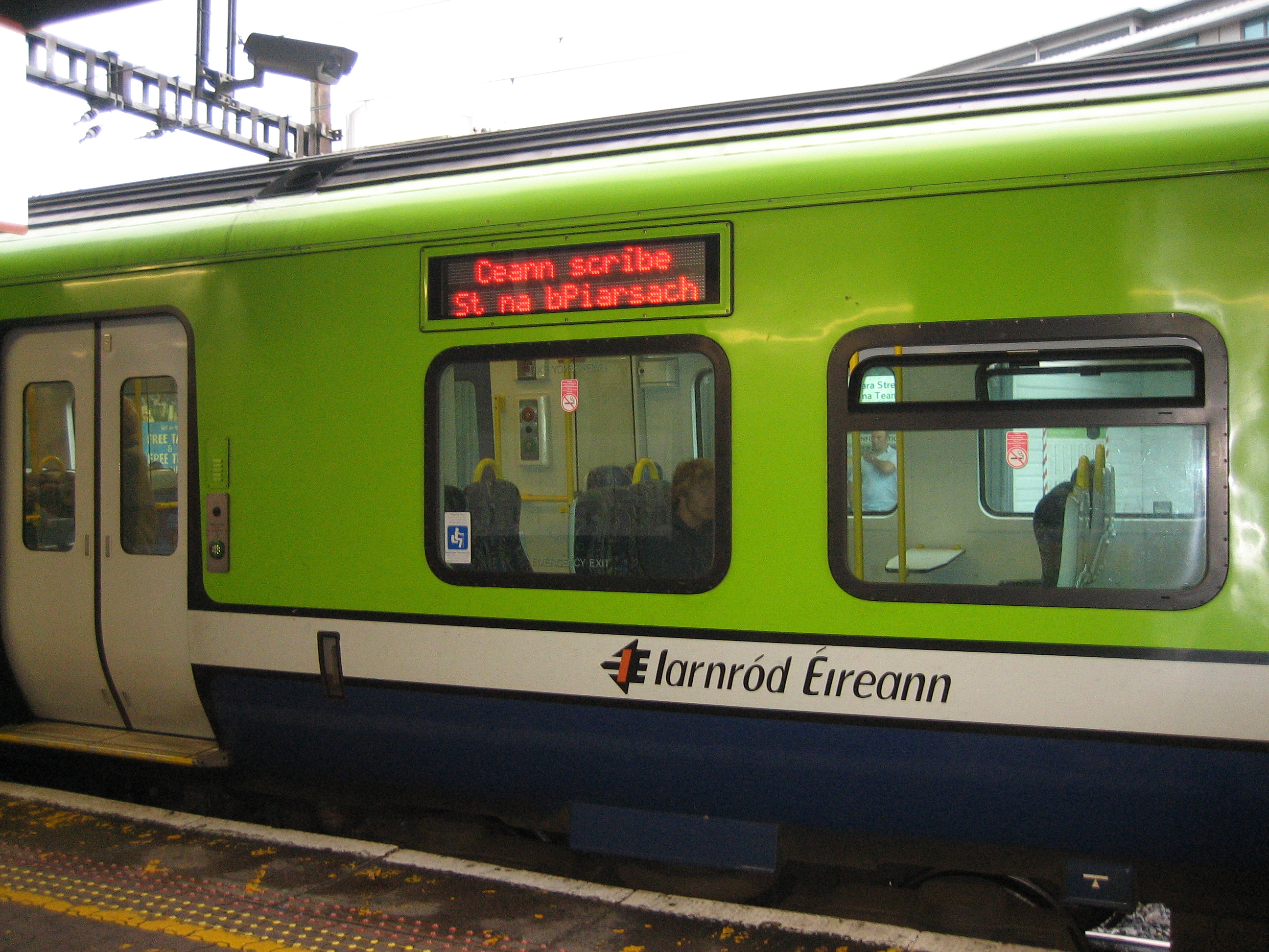 An Iarnród Éireann diesel multiple unit commuter train in the Republic of Ireland. The LED says (In Irish) "Destination - Pearse Stn.".